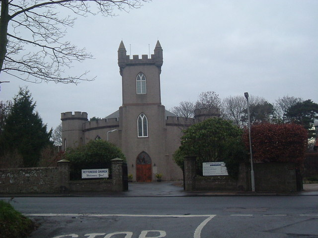 Fetteresso Parish Church Church of Scotland. Replacement (built 1810-12) for the old St Cieran's Church at Fetteresso, with a frontage modelled on Fetteresso Castle.